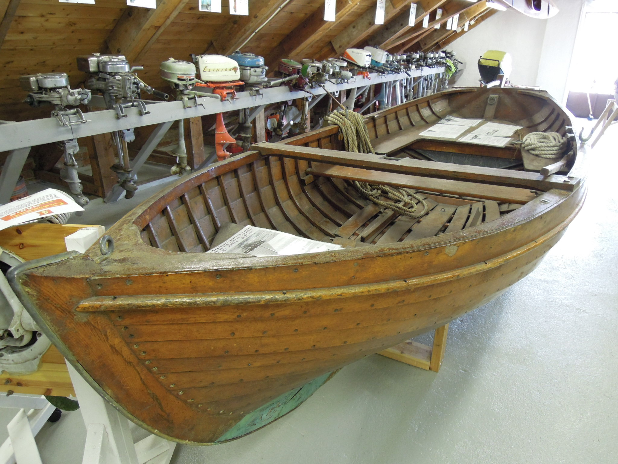 Classic boat museum in Västerås, Sweden